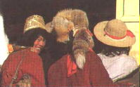 Khampas - the inhabitants of Kham eigenes Foto: Andreas Gruschke (Freiburg, Germany) for TibetInfoPage